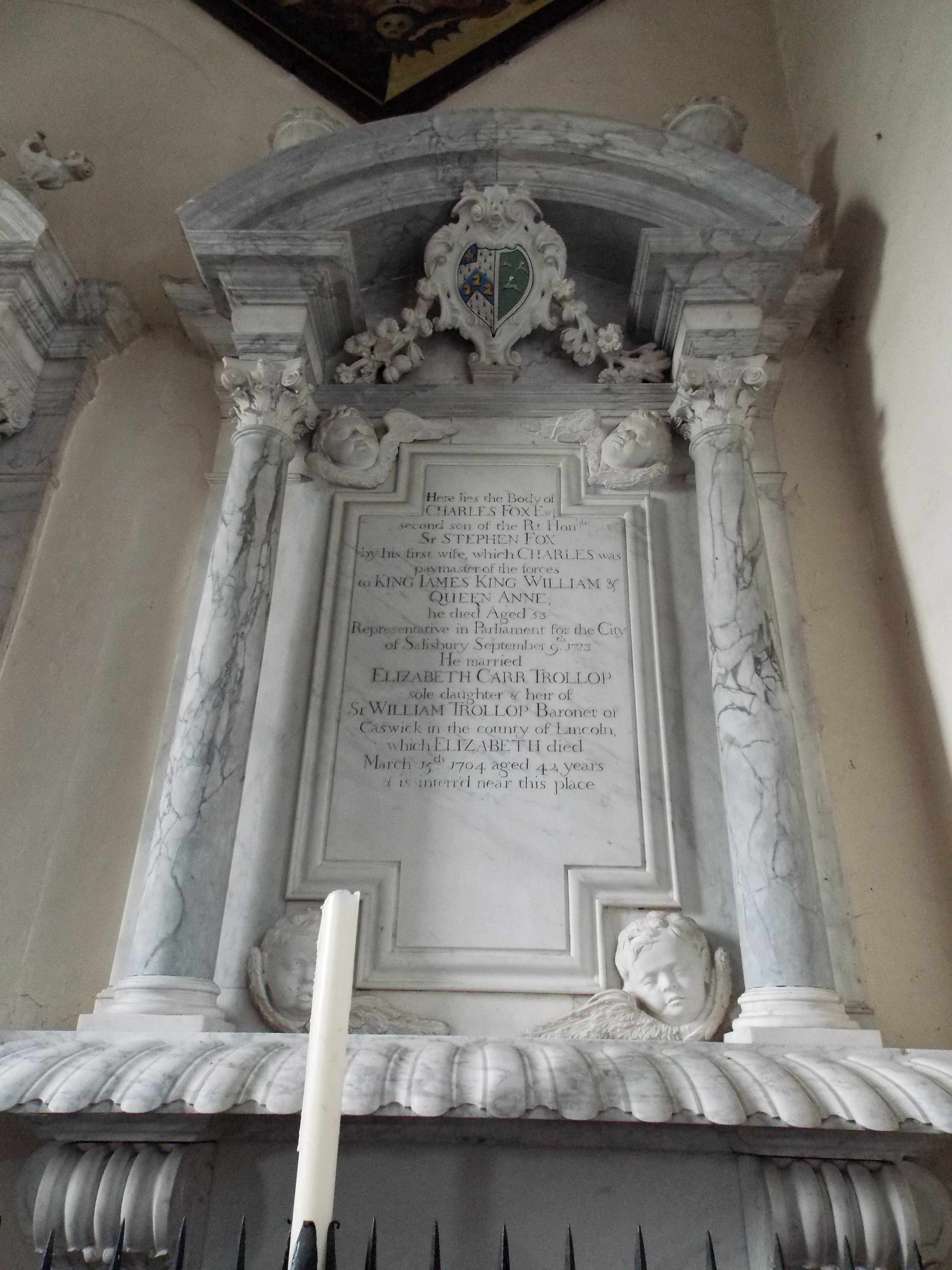 Wall-mounted monument to Charles Fox (died 1704) in the Ilchester Chapel of All Saints Church in Farley, Wiltshire, England